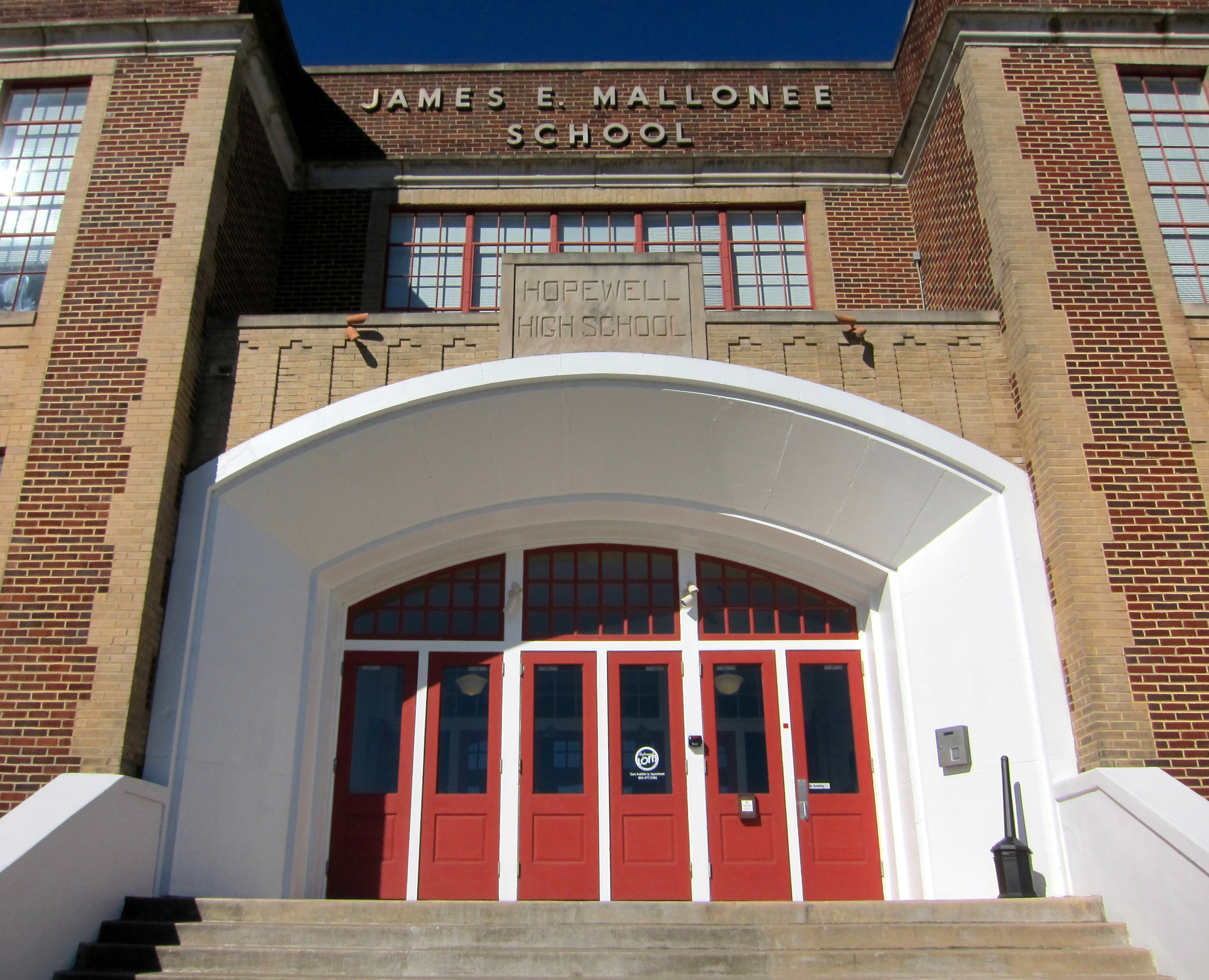 Facade of the historic Hopewell High School, in Hopewell, Virginia.